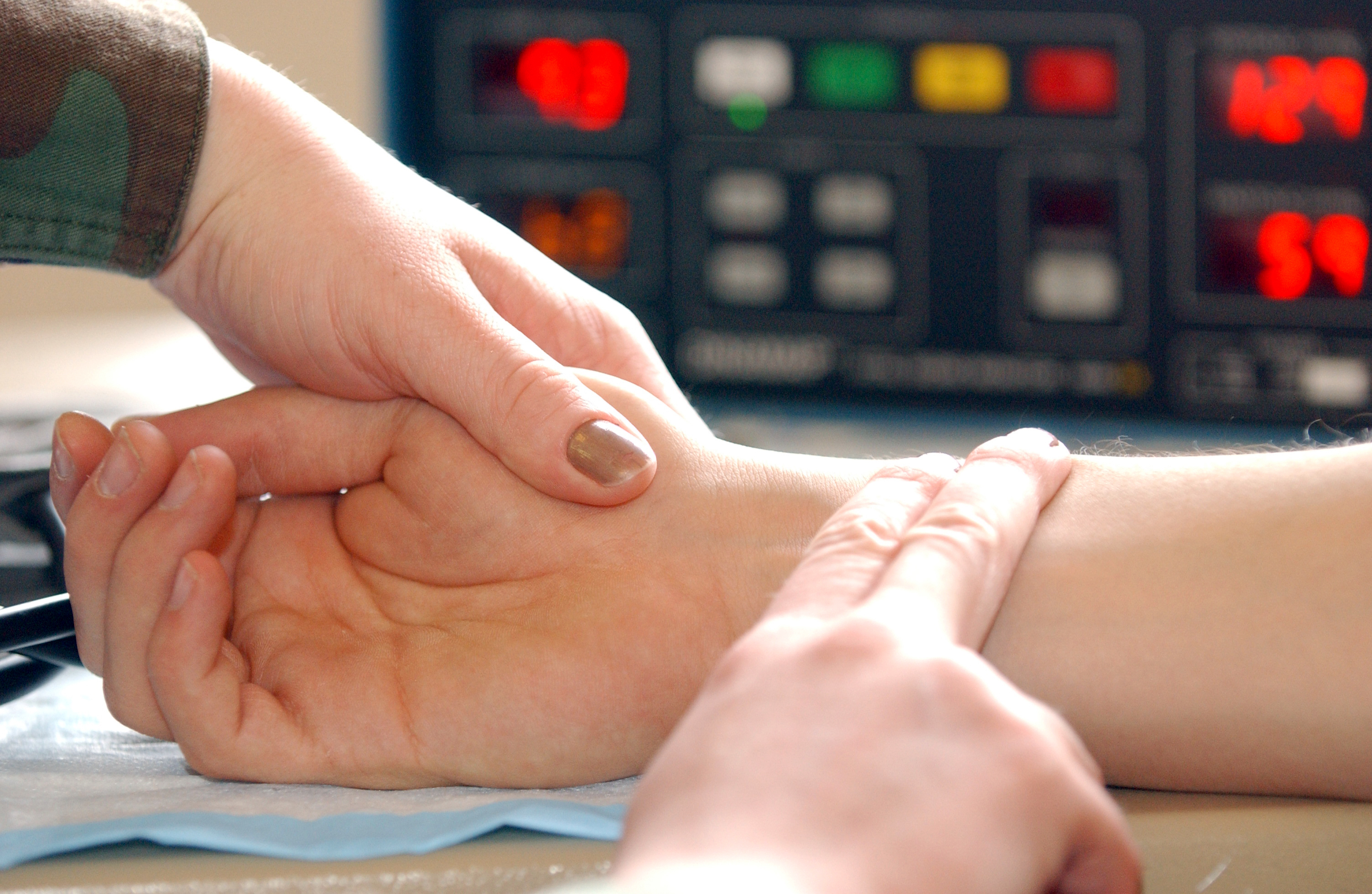 Feeling the pressure ROYAL AIR FORCE MILDENHALL, England -- Airman 1st Class Stephanie Ambler checks the pulse of Capt. Derek Ferland to verify the accuracy on the automatic blood pressure machine during a blood drive here April 13. Airman Ambler is with the 48th Medical Support Squadron and Captain Ferland is with the 100th Civil Engineer Squadron.